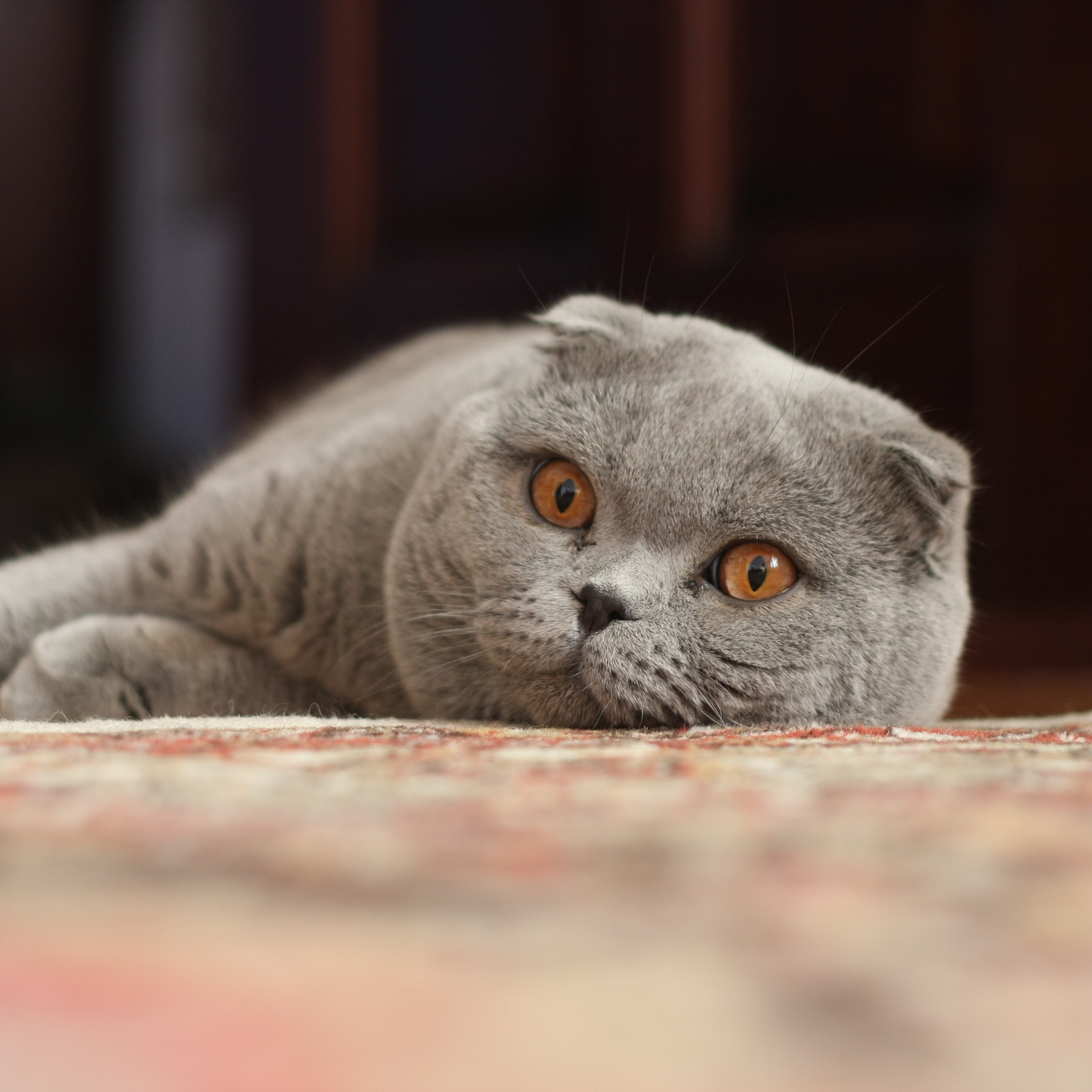 Adult (15 months old) male lilac coated Scottish Fold